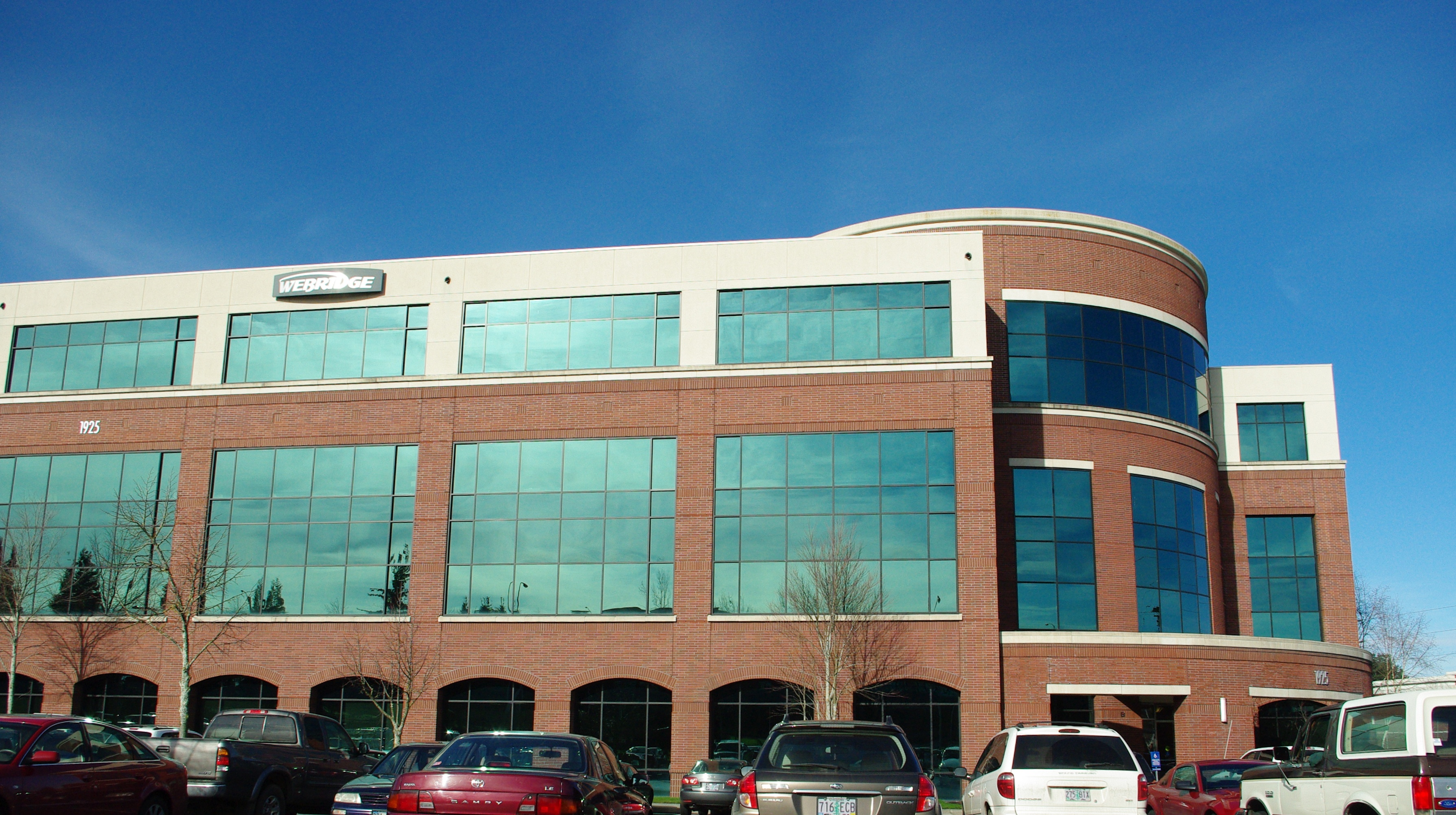 Office building in AmberGlen business park in Hillsboro, Oregon, USA. 1925 NW Amberglen Parkway.